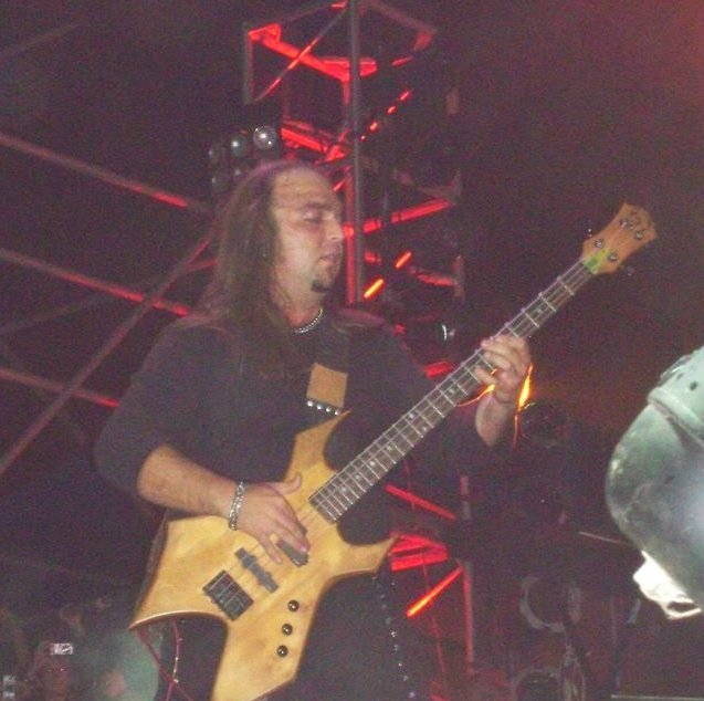 Felipe Arcuri with venezuelan heavy metal band Gillman in GillmanFest Carabobo 2007 at Valencia, Venezuela, 2007-04-28